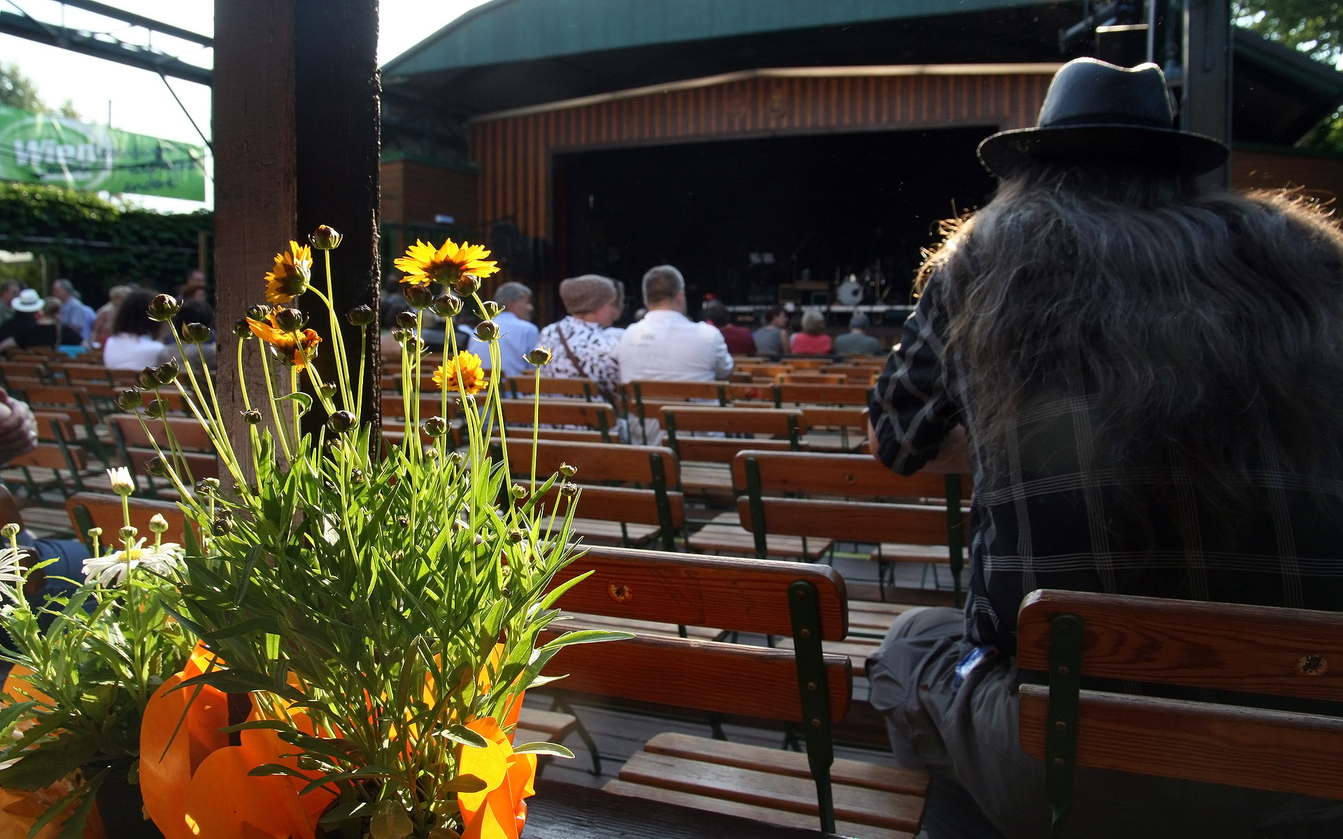 200th and last broadcast of Willi Resetarits' radio show Trost und Rat. Tschauner-Bühne in Vienna.